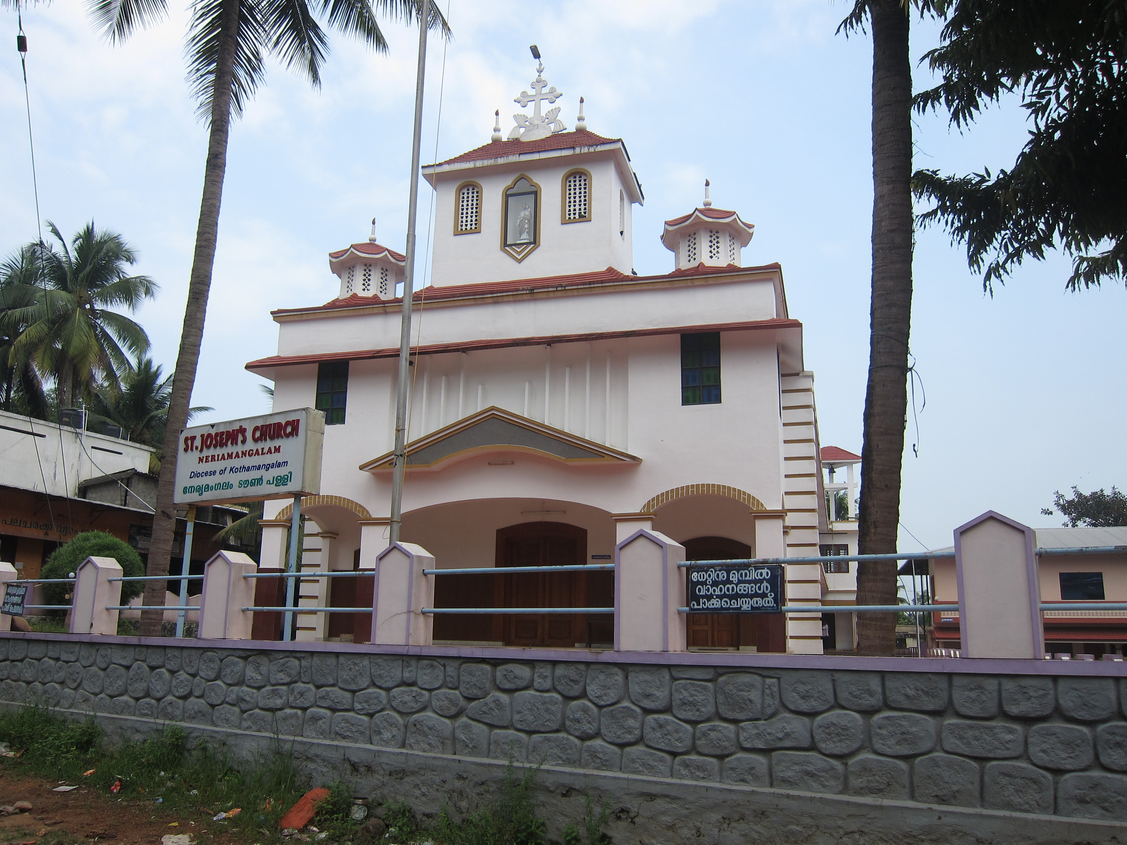 Neryamangalam - St. Joseph's Church, Kothamangalam Diocese, Ernakulam നേര്യമംഗലം ടൗൺ പള്ളി, നേര്യമംഗലം സെന്റ് ജോസഫ്‌സ് ചർച്ച്, കോതമംഗലം രൂപത, എറണാകുളം ജില്ല, ആലുവ - മൂന്നാർ വഴിയിൽ നേര്യമംഗലം പട്ടണത്തിനും പാലത്തിനും മുൻപായി സ്ഥിതി ചെയ്യുന്നു.